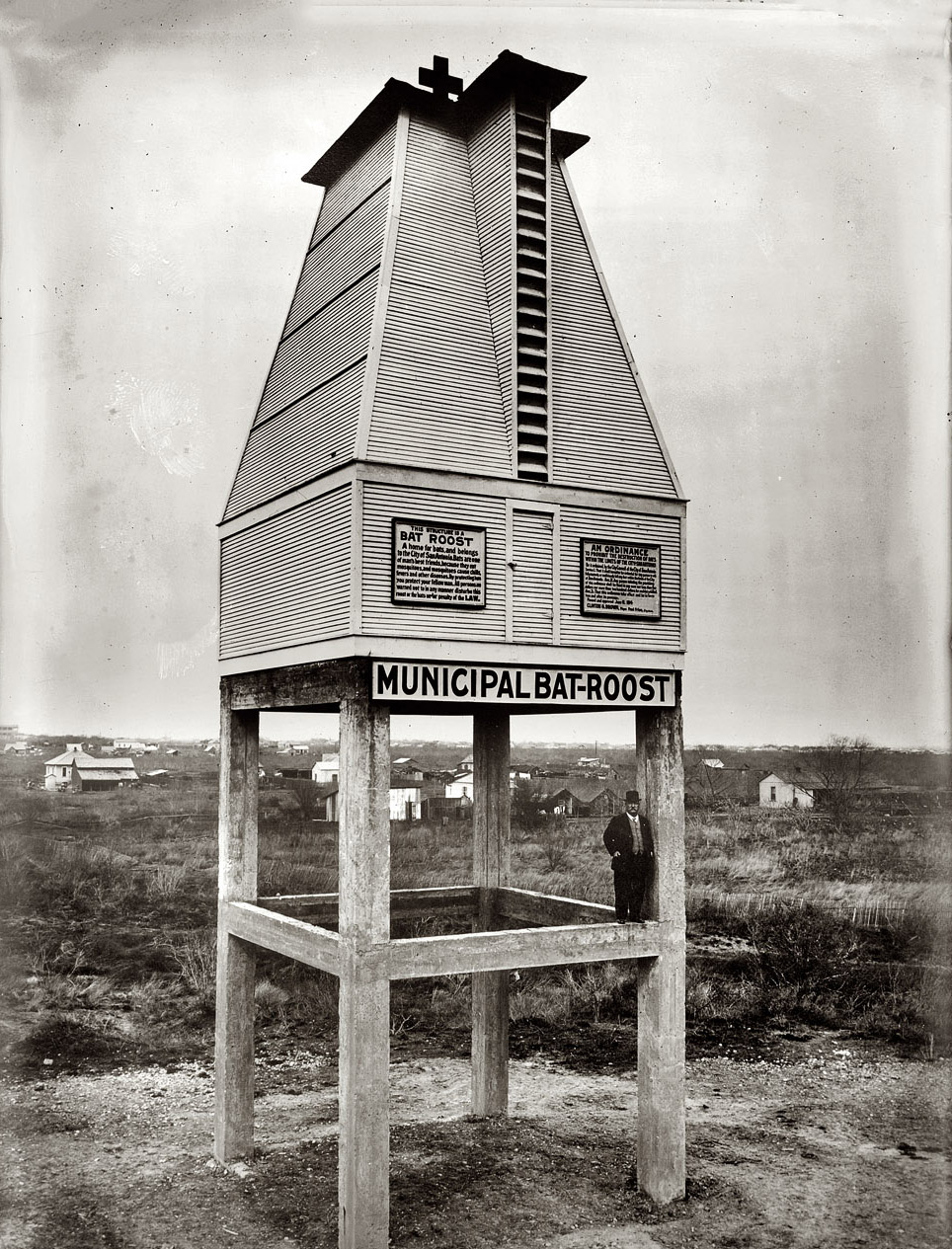 Bat roost in San Antonio with a sign: "A home for bats and belongs to the City of San Antonio. Bats are one of man's best friends, because they eat mosquitoes and mosquitoes cause chills, fevers and other diseases..." .